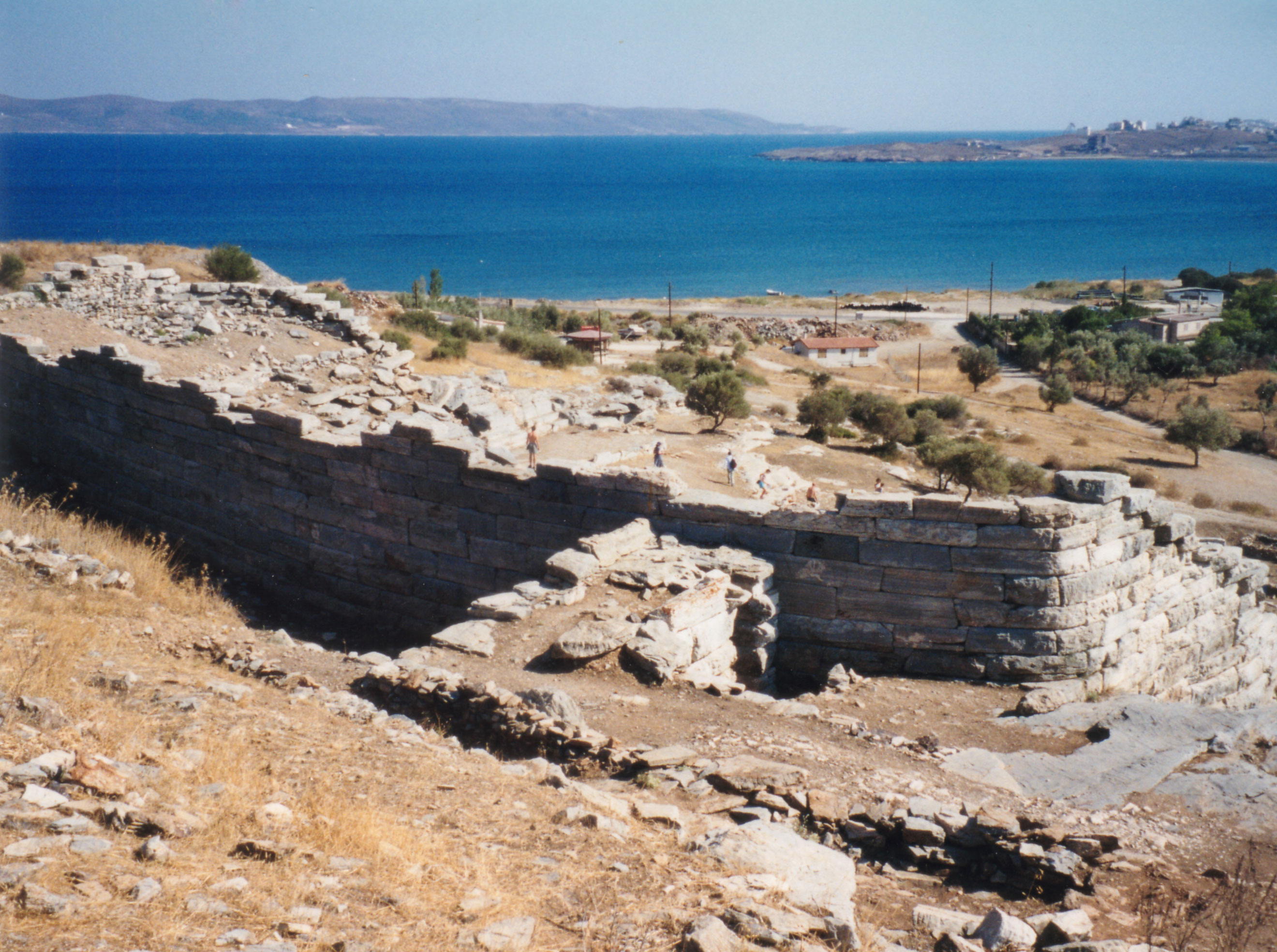 The theatre at Thorikos is rather odd. Most Greek theatres were built into hillsides. This one, as you can see from this angle, has a back. It's also odd for not being semi-circular. It's like a rather stretched ellipse. The theatre is Thorikos, Attica, Greece.